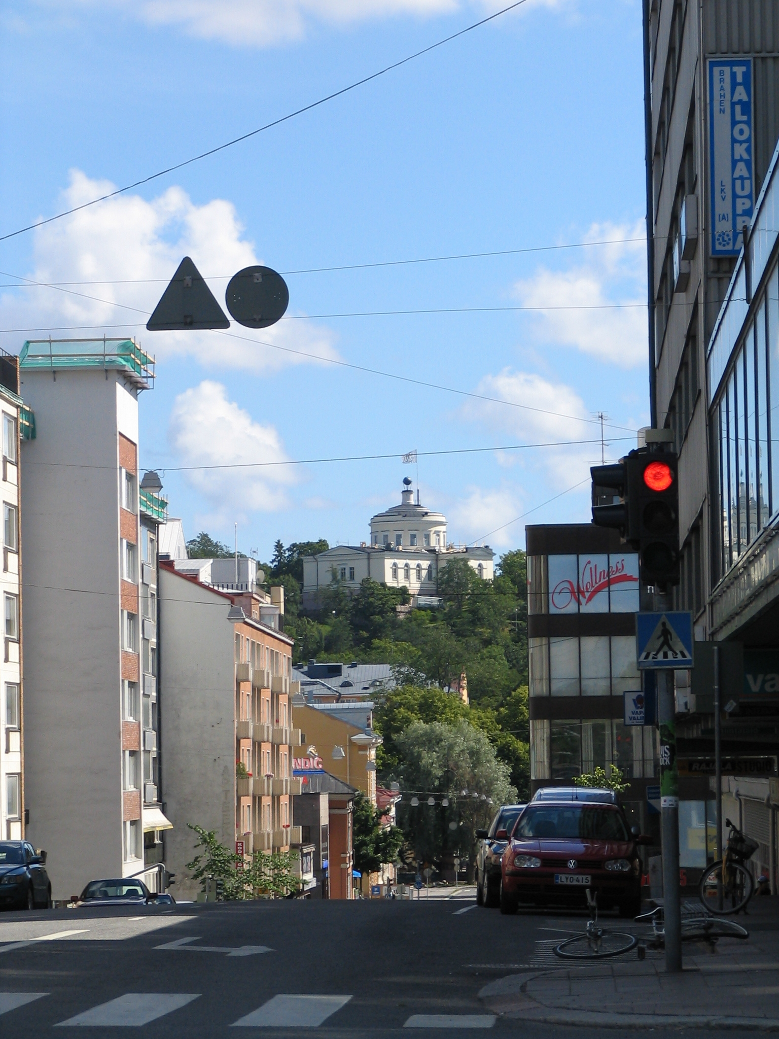 Vartiovuori Observatory and Brahenkatu seen from Puutori, Turku, Finland